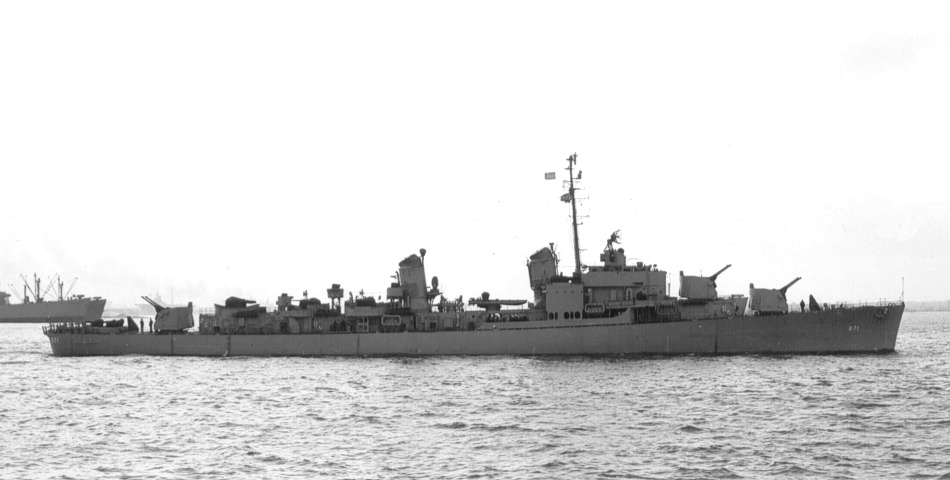 The U.S. Navy destroyer USS Damato (DD-871) off Bethlehem Steel, Staten Island, New York (USA), one day after her commissioning, 28 April 1946.